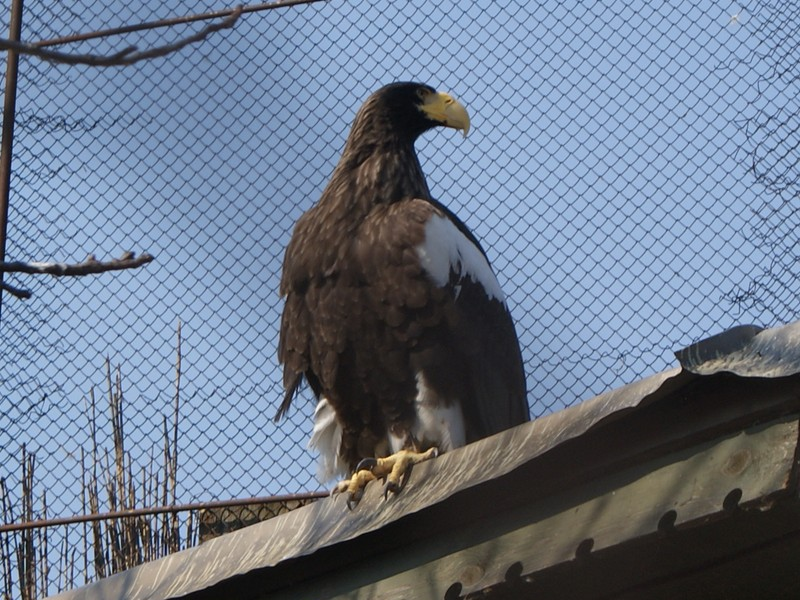 Haliaeetus pelagicus in Minsk Zoo